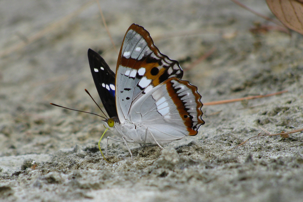 India Purple Emperor butterfly. Outer and inner view of wings are so different. it is the inner view.